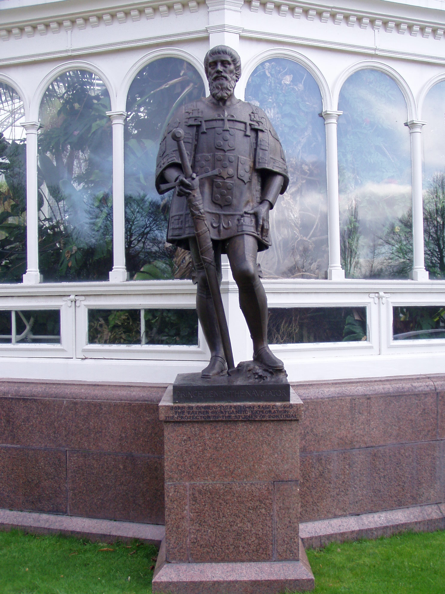 Details from the Palm house in Sefton Park, Liverpool